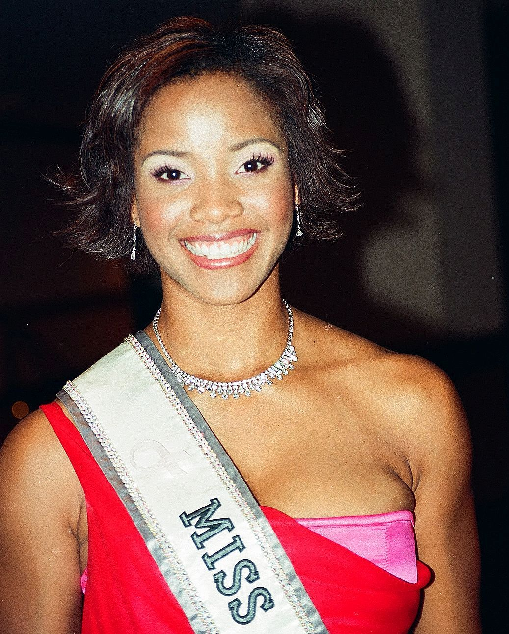 From Wash D.C. 2002